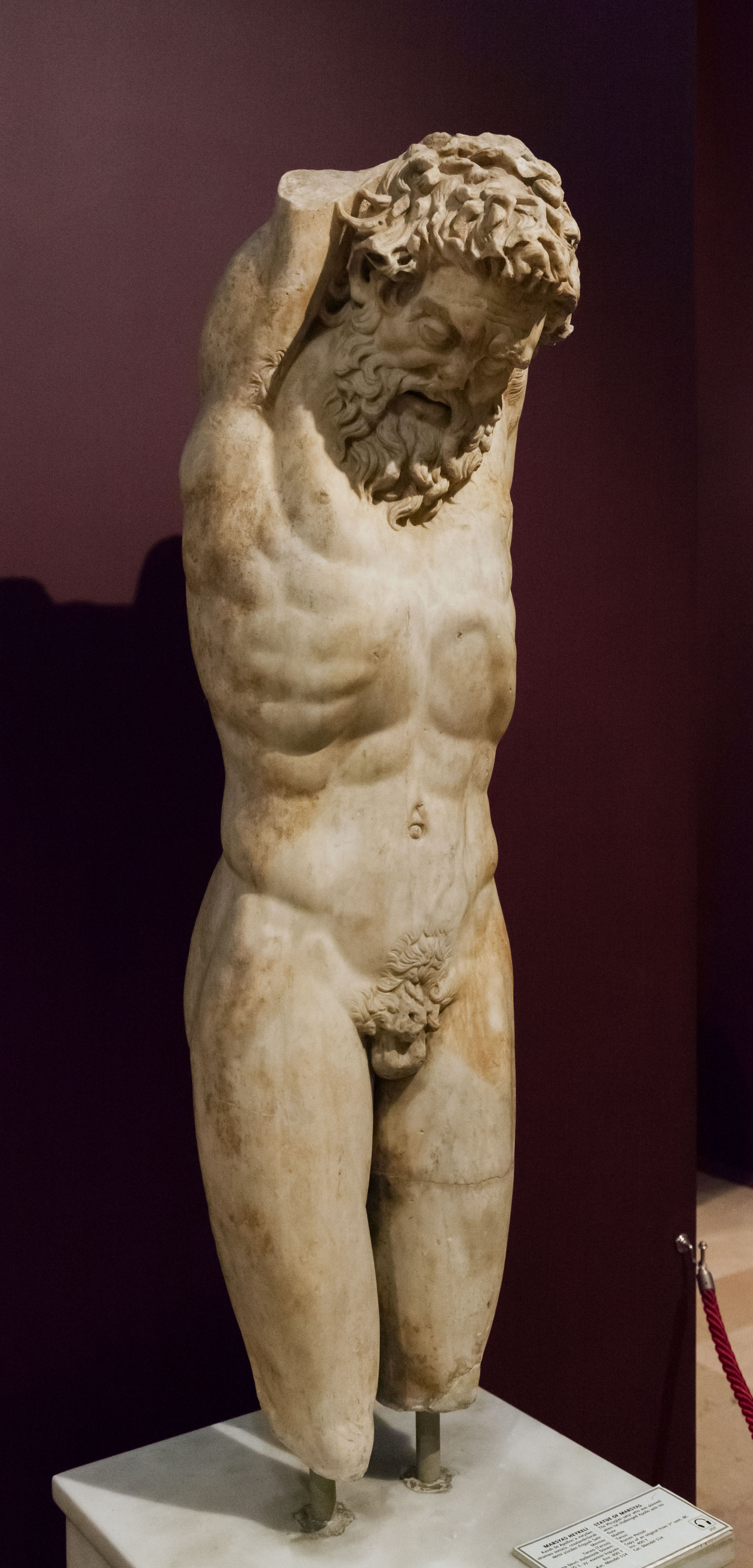 Statue of the satyr Marsyas, Archaeological Museum of Istanbul, Turkey. Roman copy of an original from the 3rd century BC.